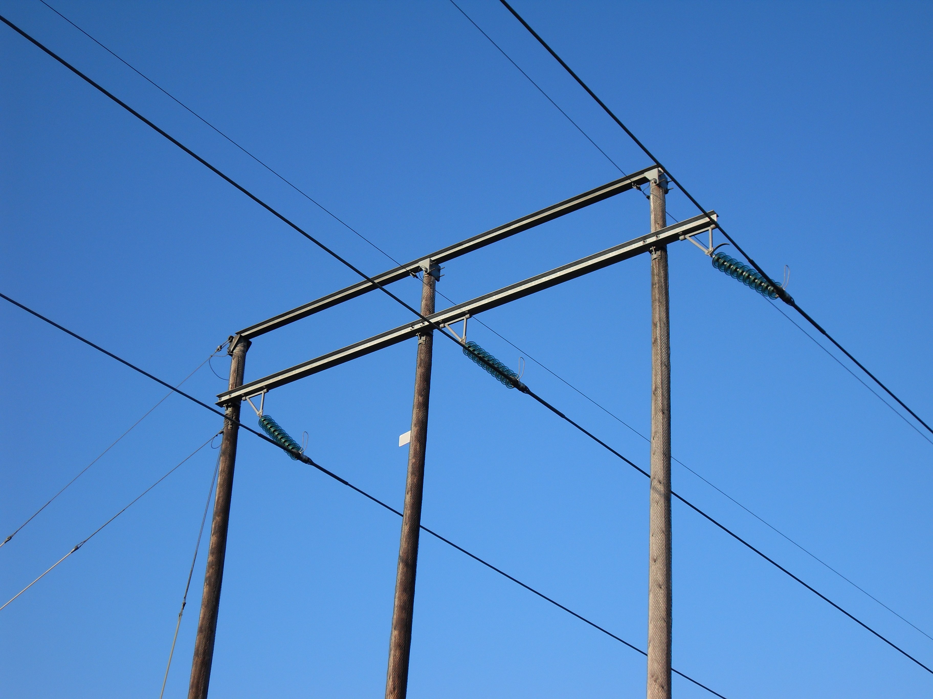 Electric power transmission out of Ljusdal, Sweden